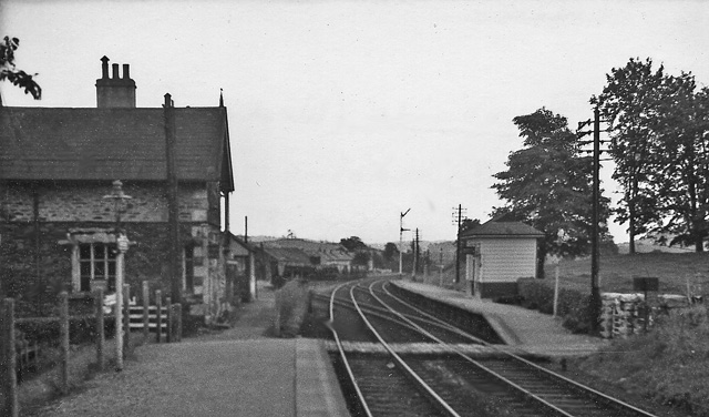 Burneside Station. View SE, towards Oxenholme; ex-London & North Western, Oxenholme - Windermere branch.[My apologies for the indifferent quality of the photograph - it was pouring with rain, of course]